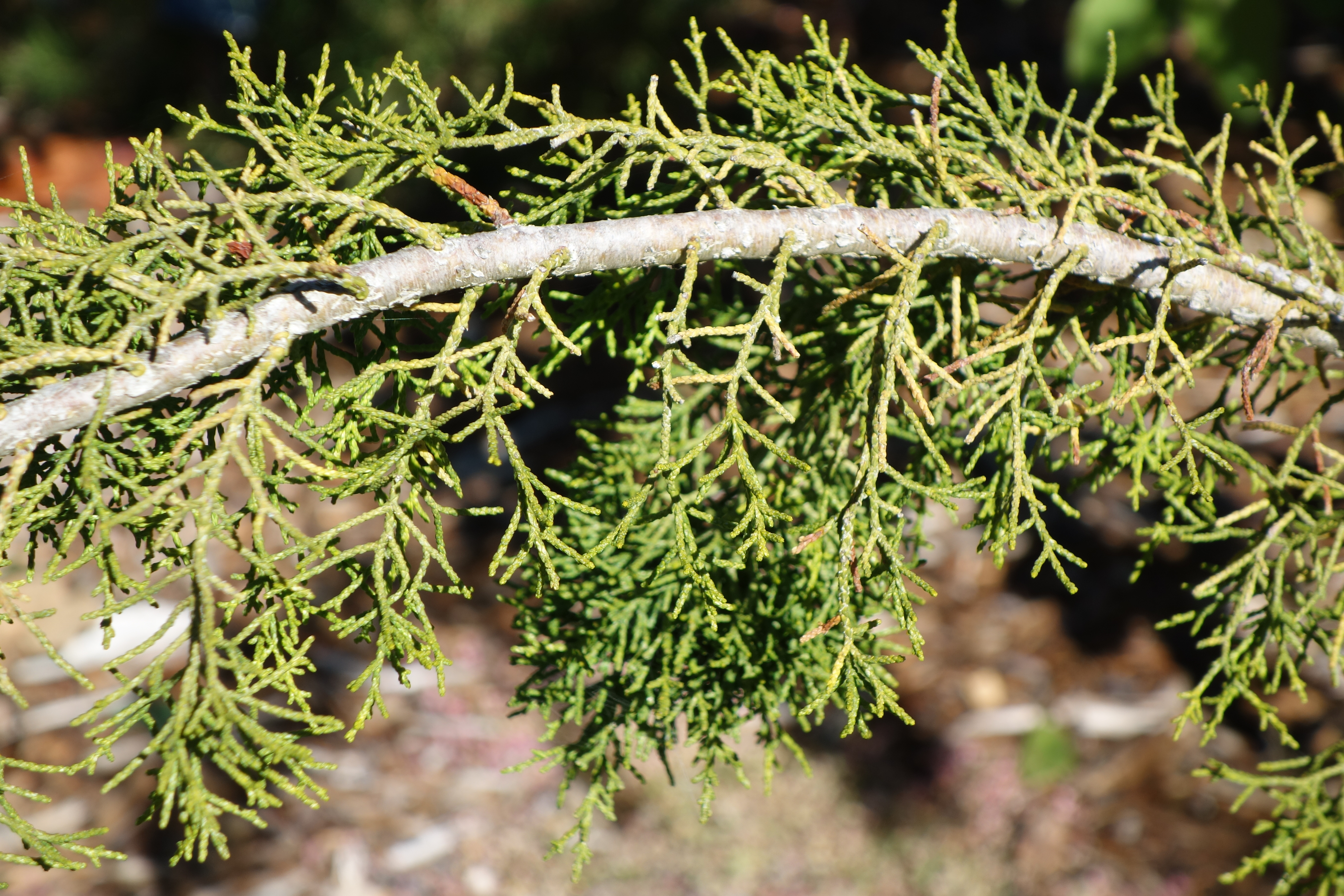 Botanical specimen in the San Francisco Botanical Garden, San Francisco, California, USA.